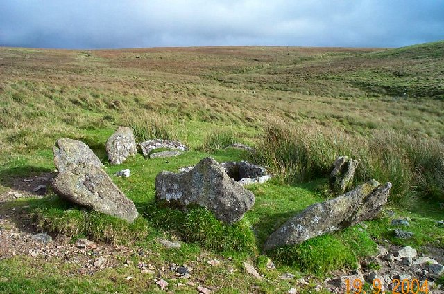 Grim's Grave - Dartmoor. This is a good example of one of the Bronze Age burial remains that are to be found on Dartmoor. This one has a good retaining circle of 9 stones that seem somewhat "blown apart". Originally they would have been used to support the superstructure that has now disappeared. Grim is another name for Satan.